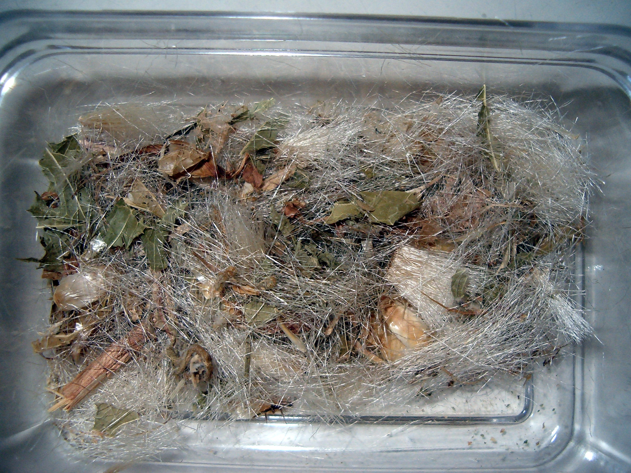 Cnicus benedictus herba